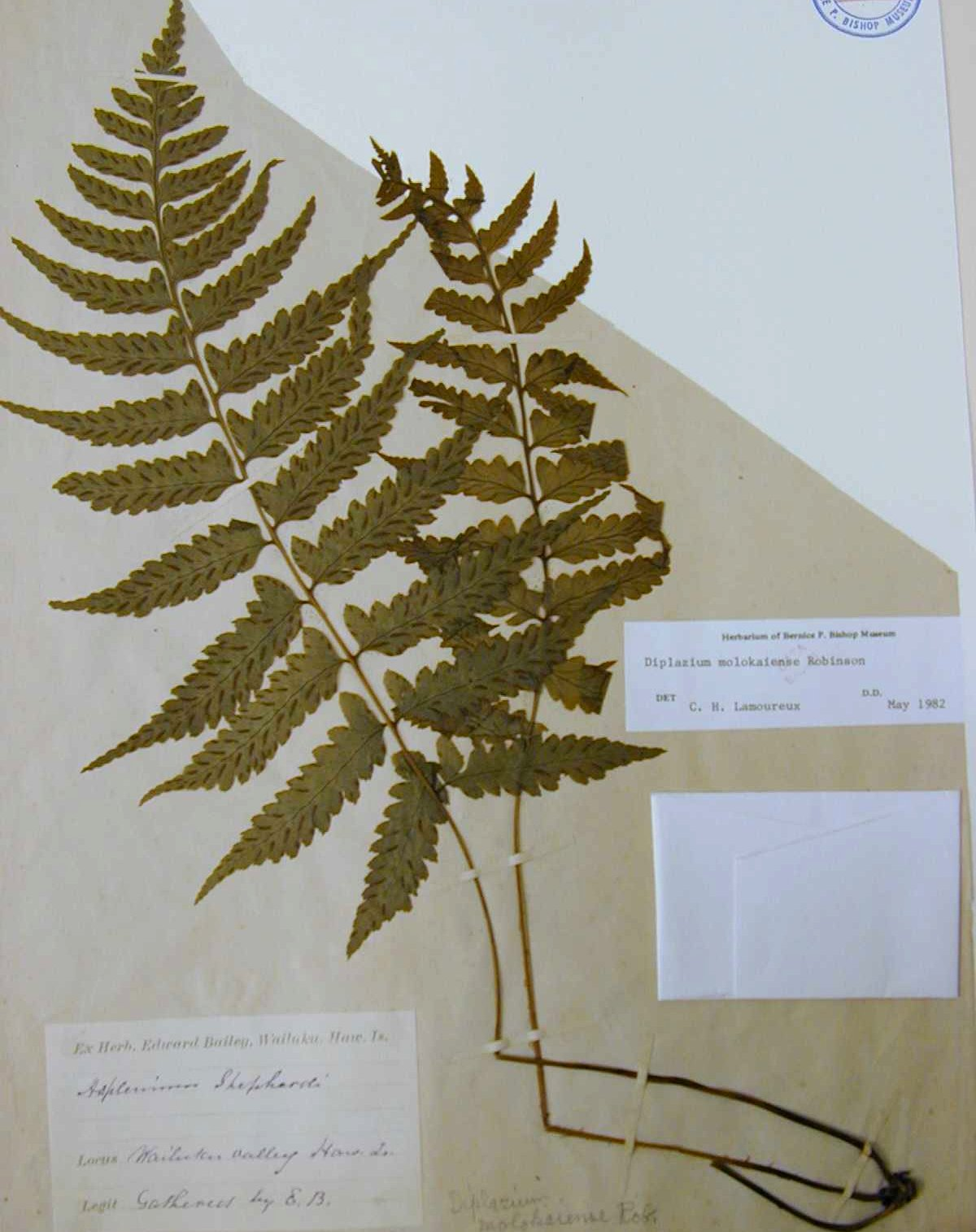 Diplazium molokaiense (BISH specimen). Location: Hawaii, Unknown location